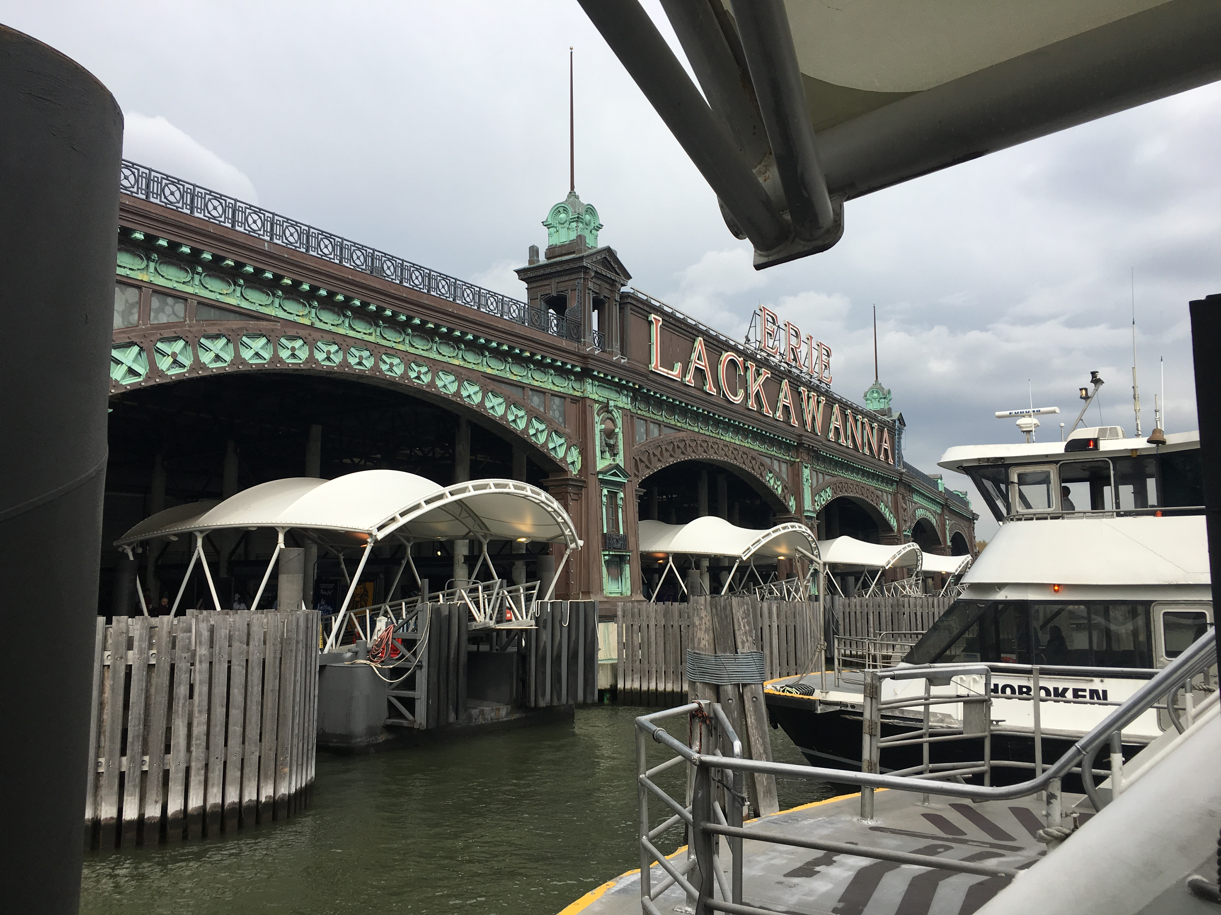 Erie Lackawanna sign on the Hoboken Terminal ferry port, viewed from ferry slip 1. A ferry from New York is approaching the dock.